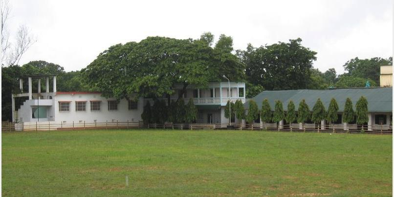 This is a photo of my school.